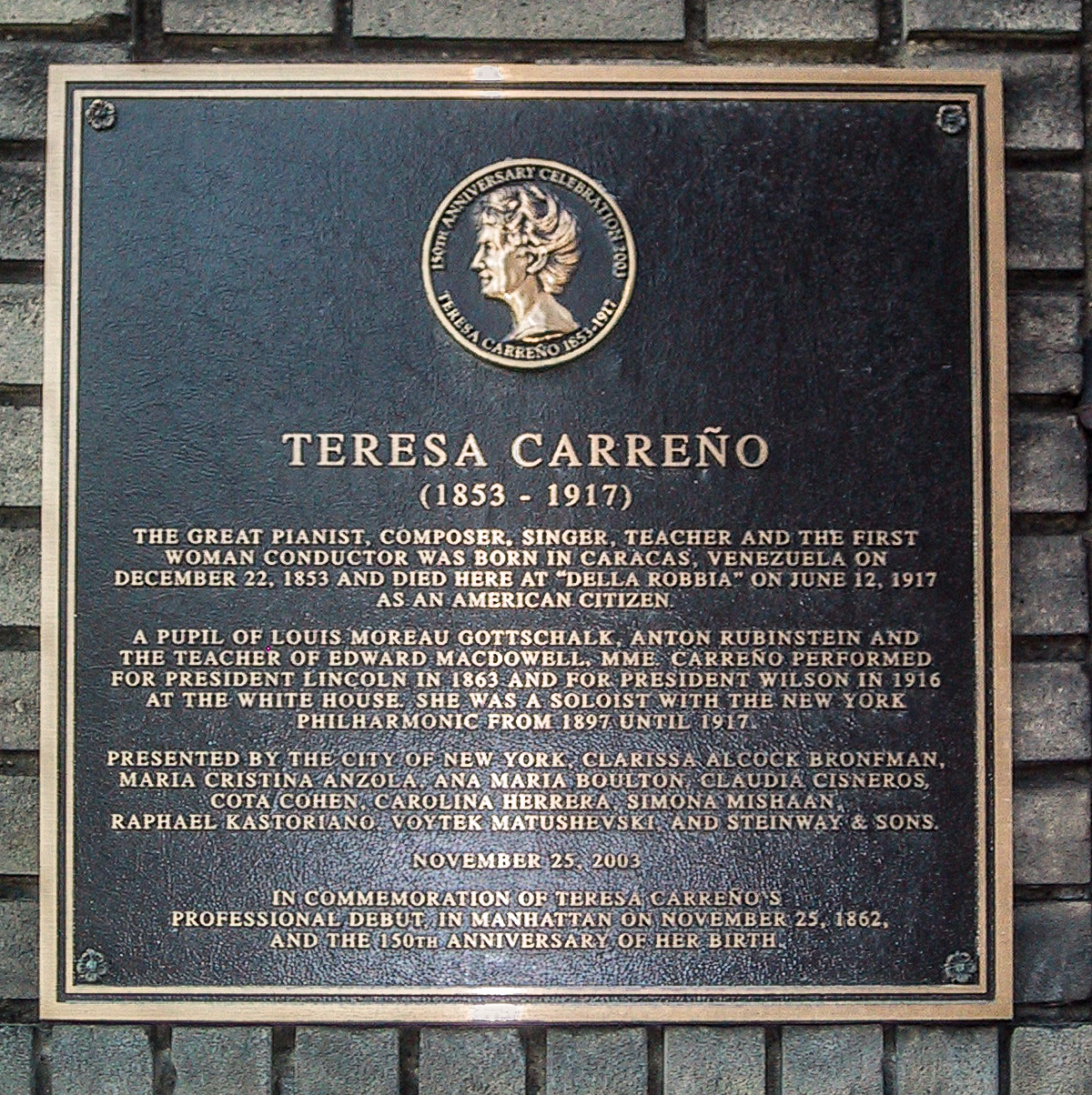 Plaque on the 96 Street side of the apartment building "Della Robbia" which is on the NE corner of 96 Street and West End Avenue in Manhattan.